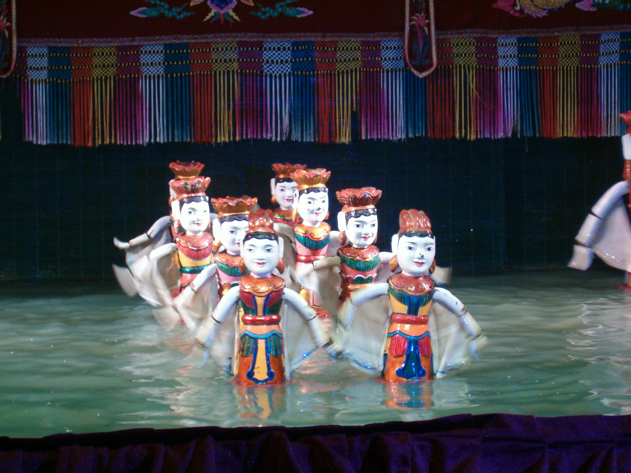 a picture of mine that i took in the puppet theatre in Hanoi, Vietnam